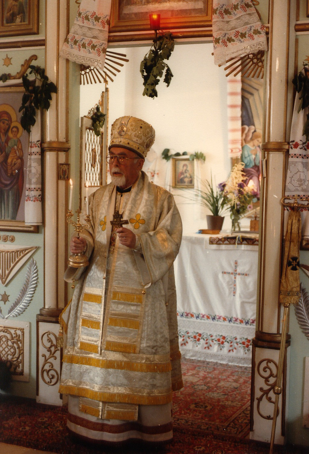 Orthodox Bishop